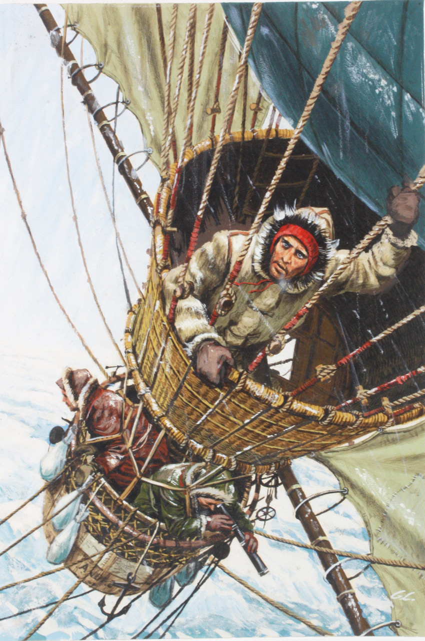 Imagery of balloonists in the Arctic by Gil Cohen (born July 28, 1931 in Philadelphia)—an American artist, noted for his illustrations of aircraft and people in military service, who also illustrated men's magazines, books and movie posters.